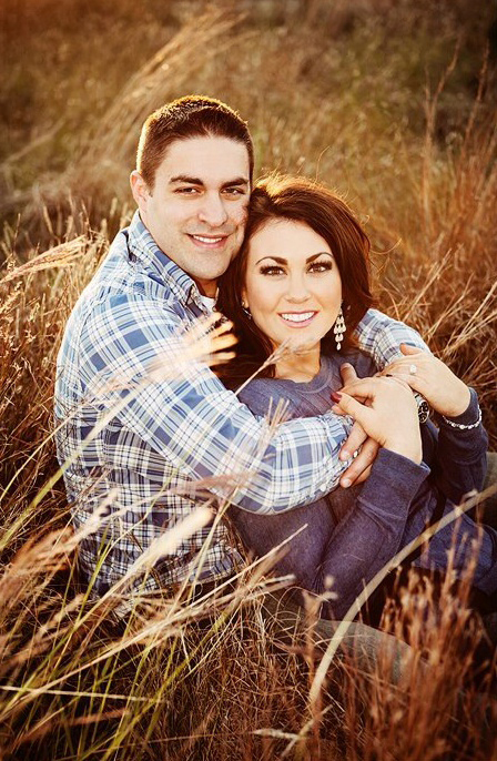 U.S. Air Force Capt. Benjamin Griffith, 606th Air Control Squadron alpha flight commander from Bartlett, Tenn., and his wife Christina pose during a photo shoot. The couple is currently expecting their first child while Benjamin is deployed. (Courtesy photo/Released)